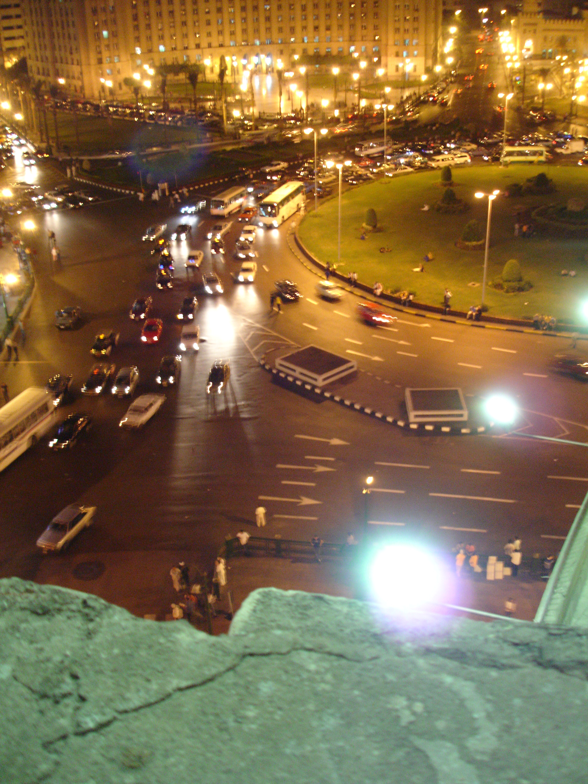 A night time view of the roundabout on Tahrir Square, Downtown Cairo, Egypt.